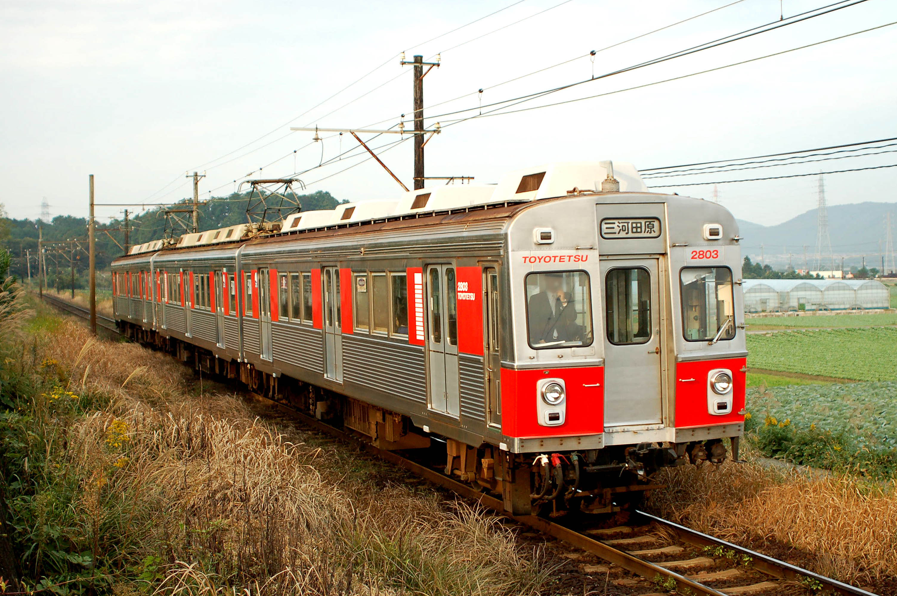 Toyohashi Railway type 1800 electric car. 豊橋鉄道1800形電車。